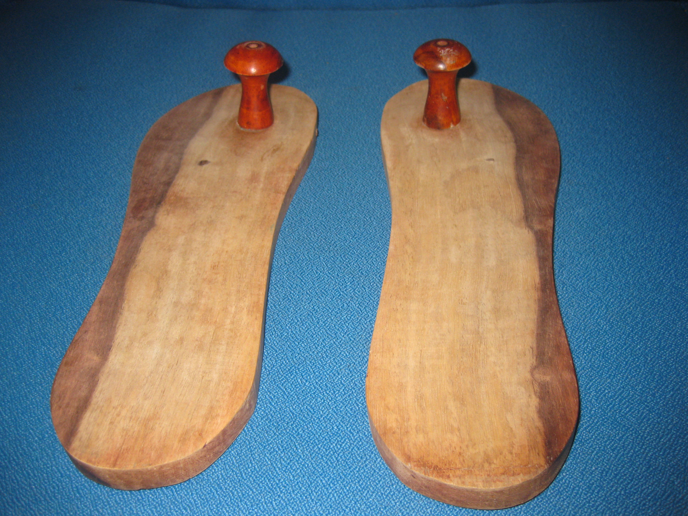 Paduka Wooden footwear of Saints